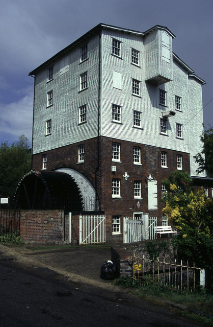 Crabble Mill. Very impressive watermill that helped to feed the sailing navy.